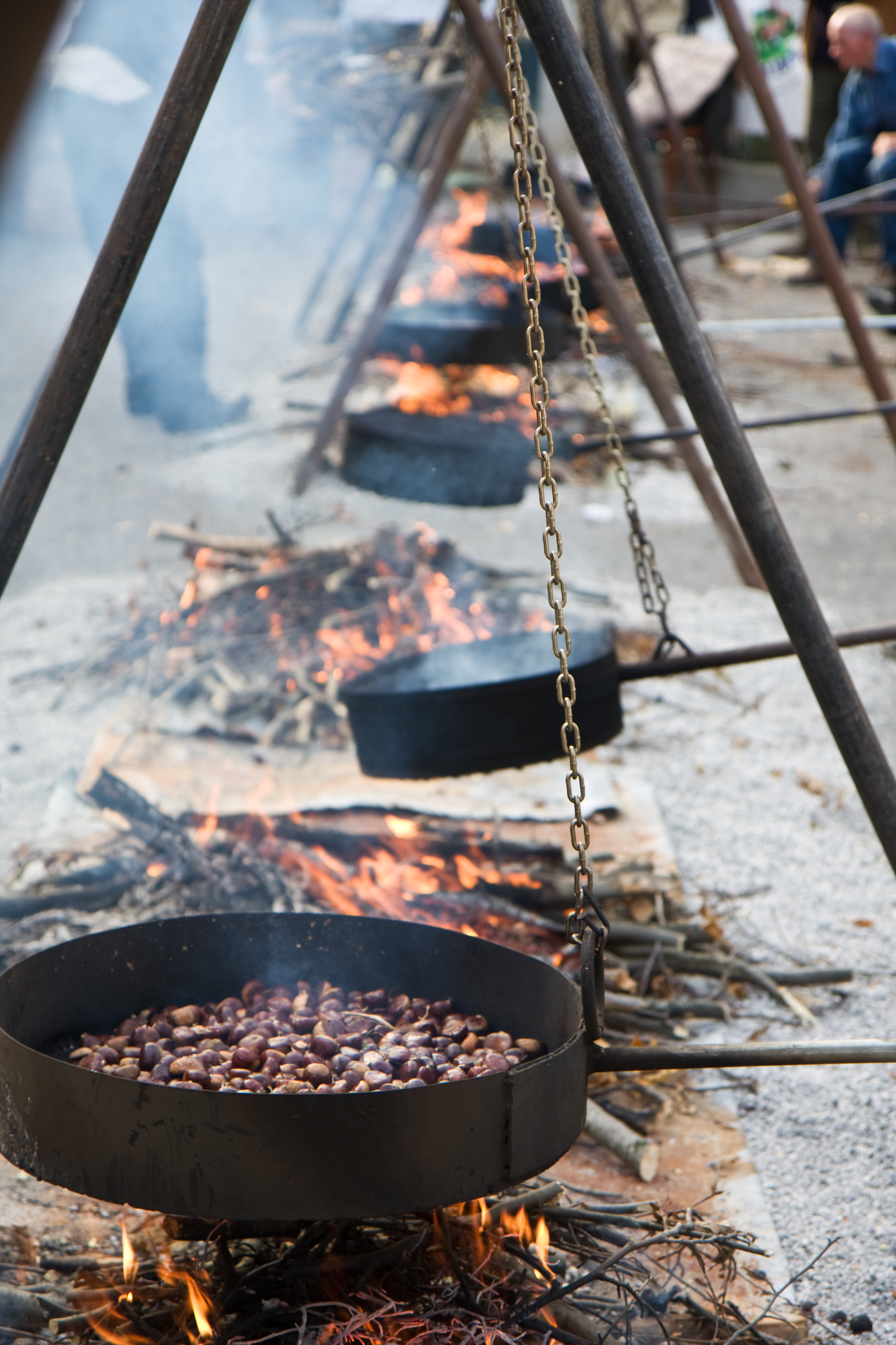 Castanyada: roasted chestnuts inside the pans – Italy.